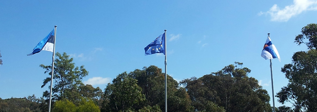 EST, EU and FIN flags